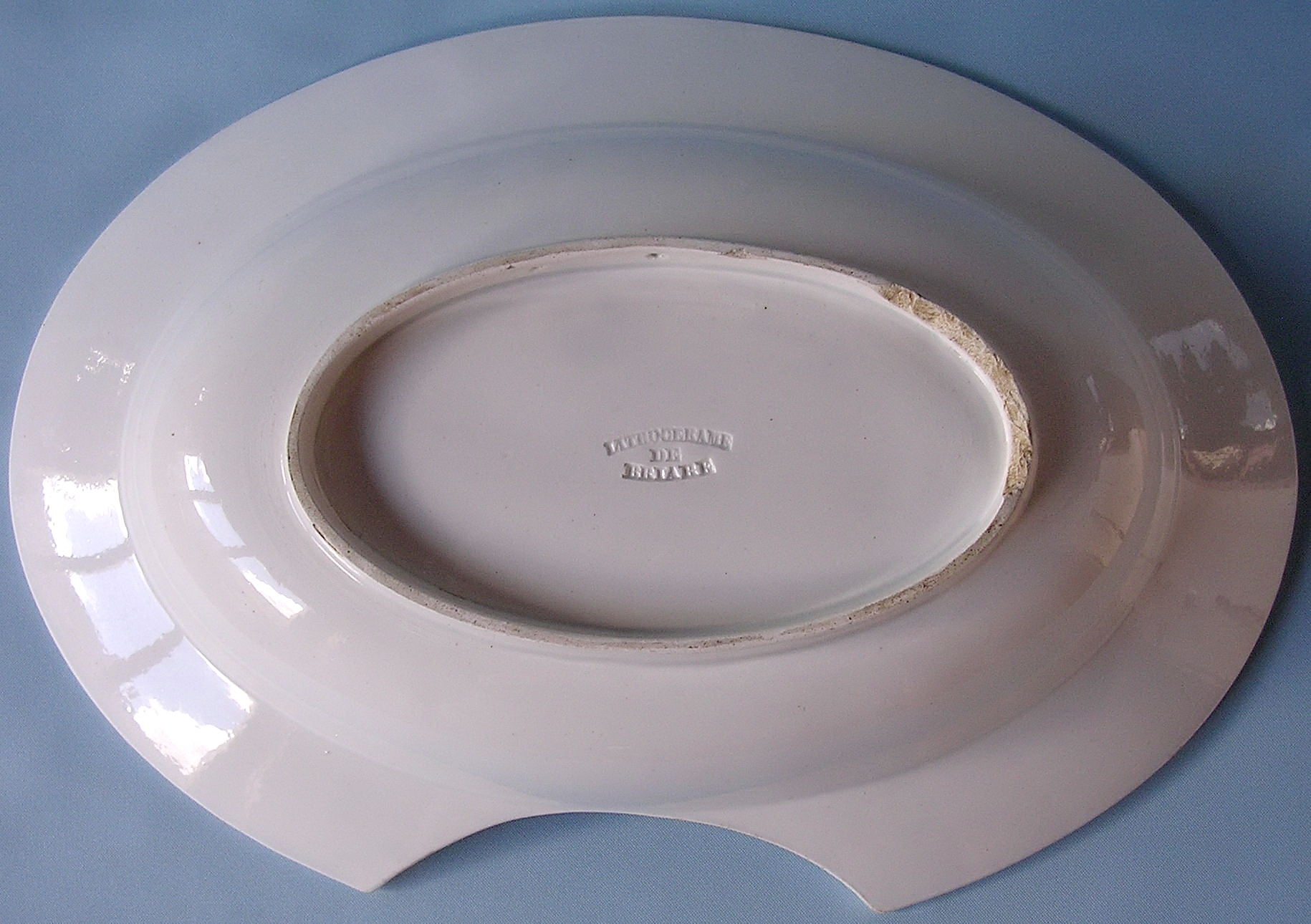 Barber's bowl in earthenware from Briare manufactory, ca. 1840.